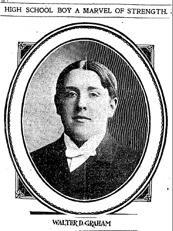 Photograph of Walter D. Graham